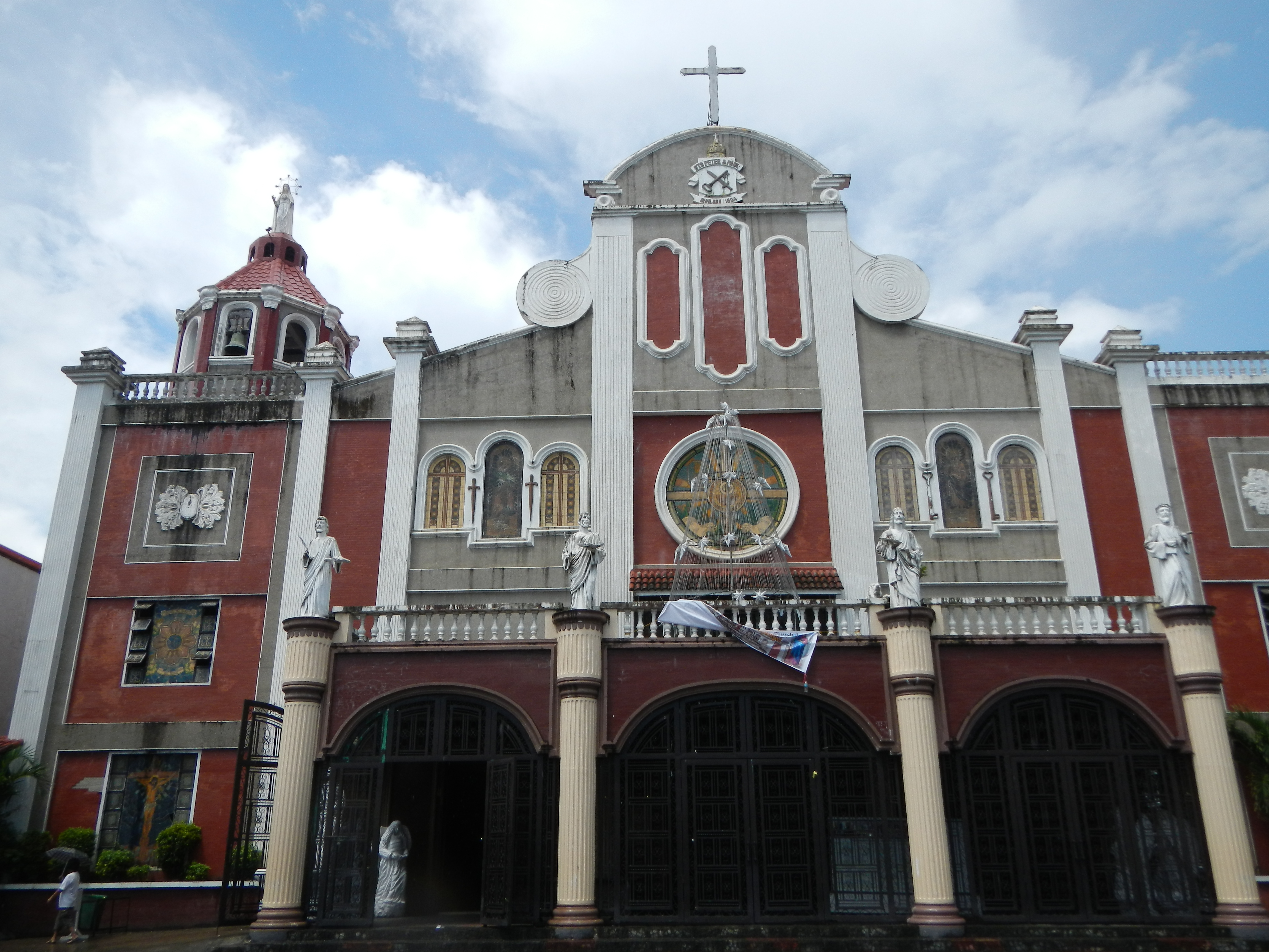 UploadWizard photos -- (General description, 3-dimension angle by angle photography of this town, church & landmarks) -- Bust, Monument of Hon. Magdaleno "Denong" Palacol, at Bus Stop, terminal, junction near footbridge at Pagsawitan, Santa Cruz, Laguna[1] & the 1604 Saints Peter and Paul Parish Church of Siniloan - (Siniloan, Laguna [2] - Vicariate of Saints Peter and Paul - Saints Peter and Paul Parish, Siniloan, Laguna Episcopal District IV [3] Roman Catholic Diocese of San Pablo [4] [5] [6] Coordinates: 14°25'19"N 121°26'46"E Siniloan town proper Poblacion[7] [8] [9] original Church was built in 1733 and was rebuilt in 1870[10] - - Siniloan, Laguna [11][12] subdivided into 20 barangays. Of these, 13 are classified as urban and 7 are classified as rural. Coordinates: 14°26'3"N 121°28'58"E[13] [14]). (Note: I decided to re-take or re-photograph these landmark town photos since the sun was so good and before the weather was bad).